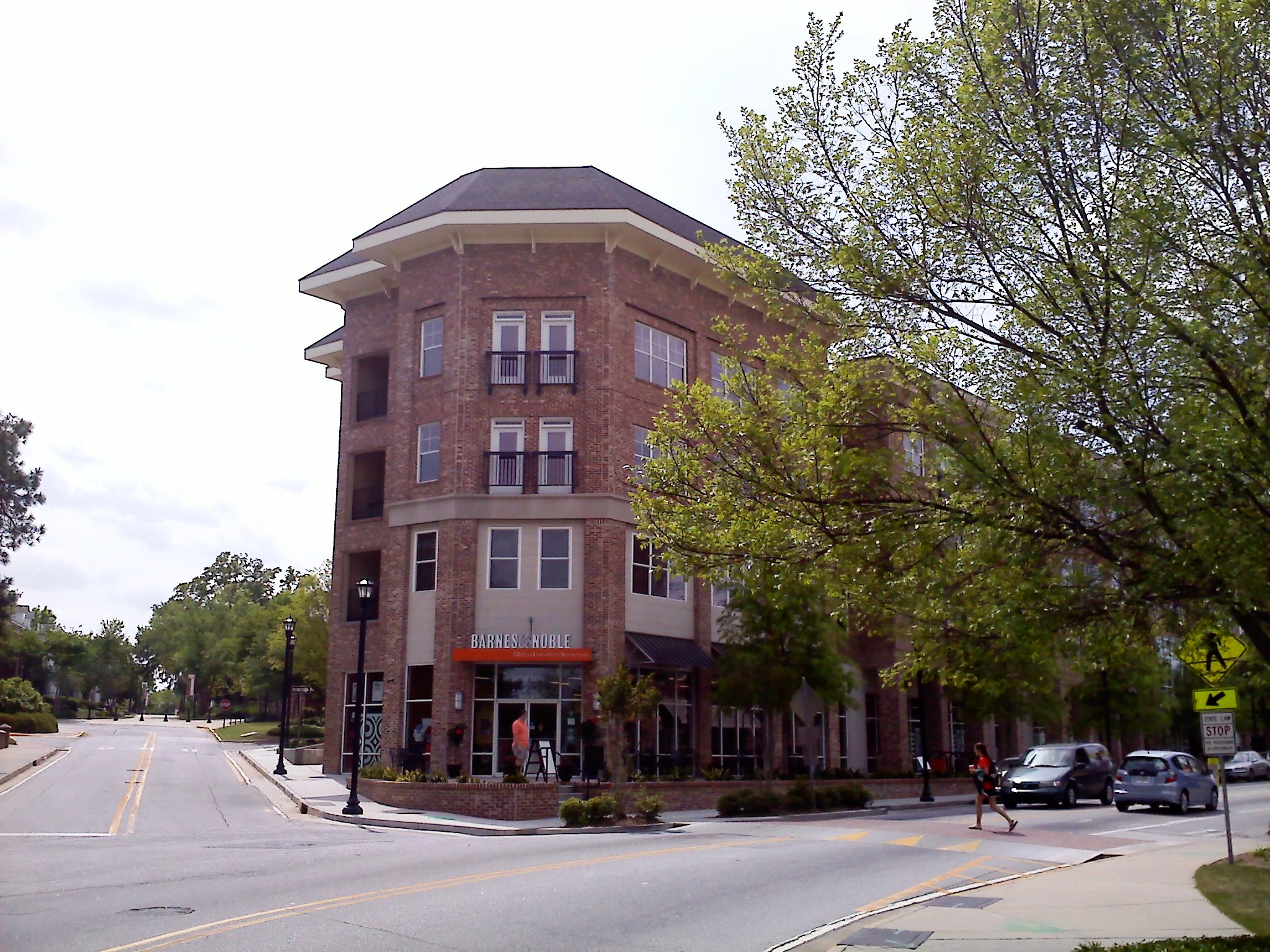 Mercer University's Mercer Lofts in Macon, Georgia, United States.